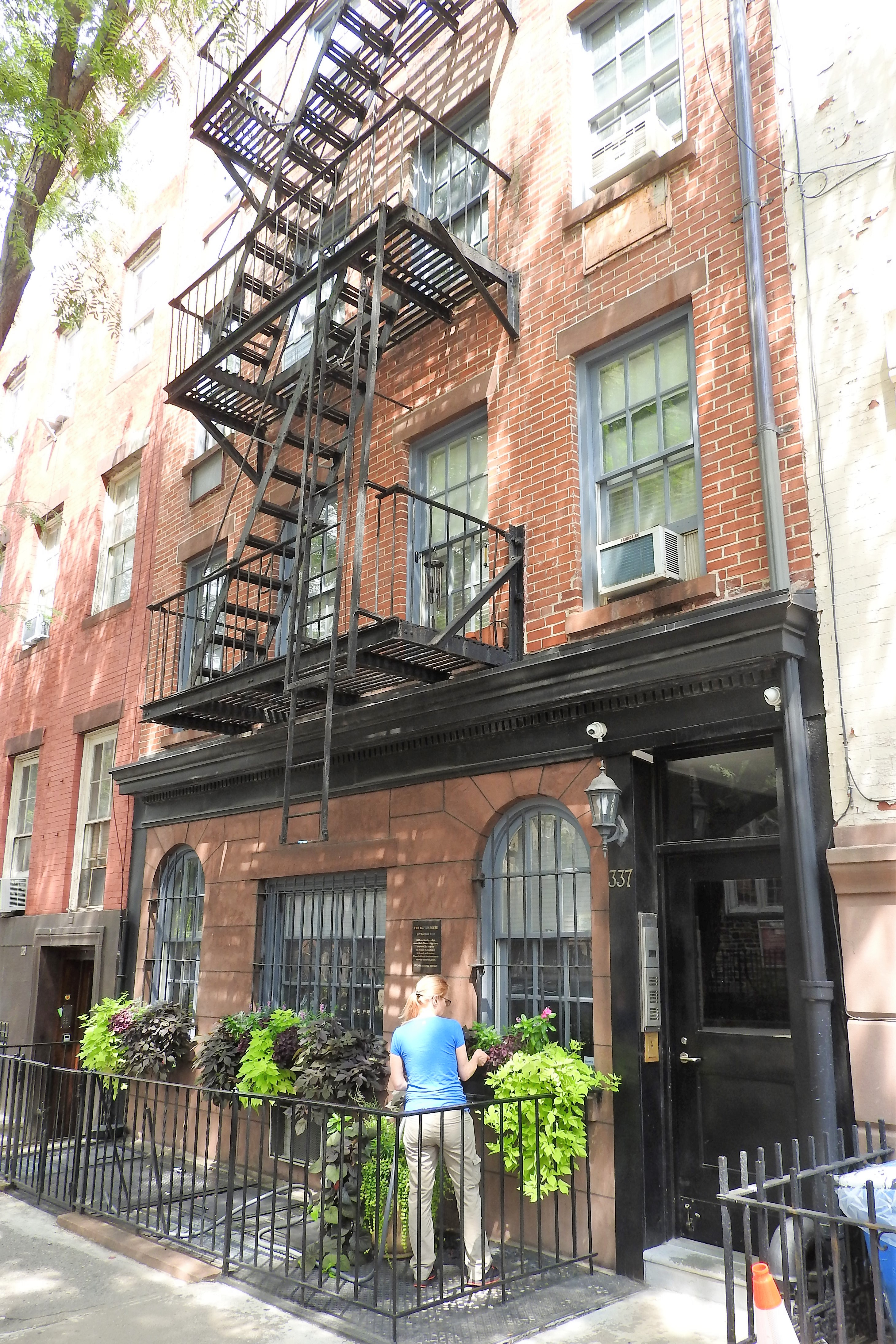 Looking north at industrious home owner